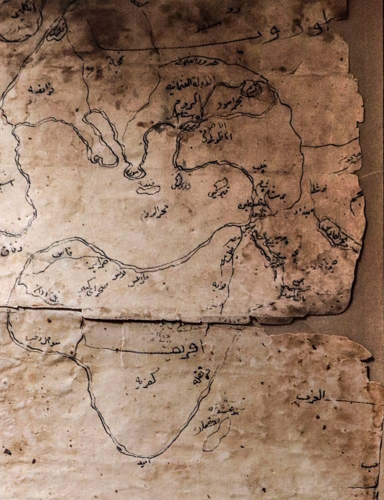 Museum of Ouadane: Ancient Arabian Wolrd map